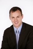 Senator Josh Penry